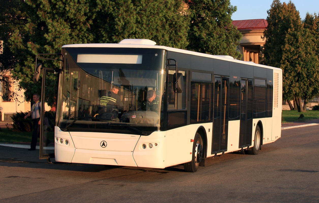 AeroLAZ 12 bus in Lviv, Ukraine.